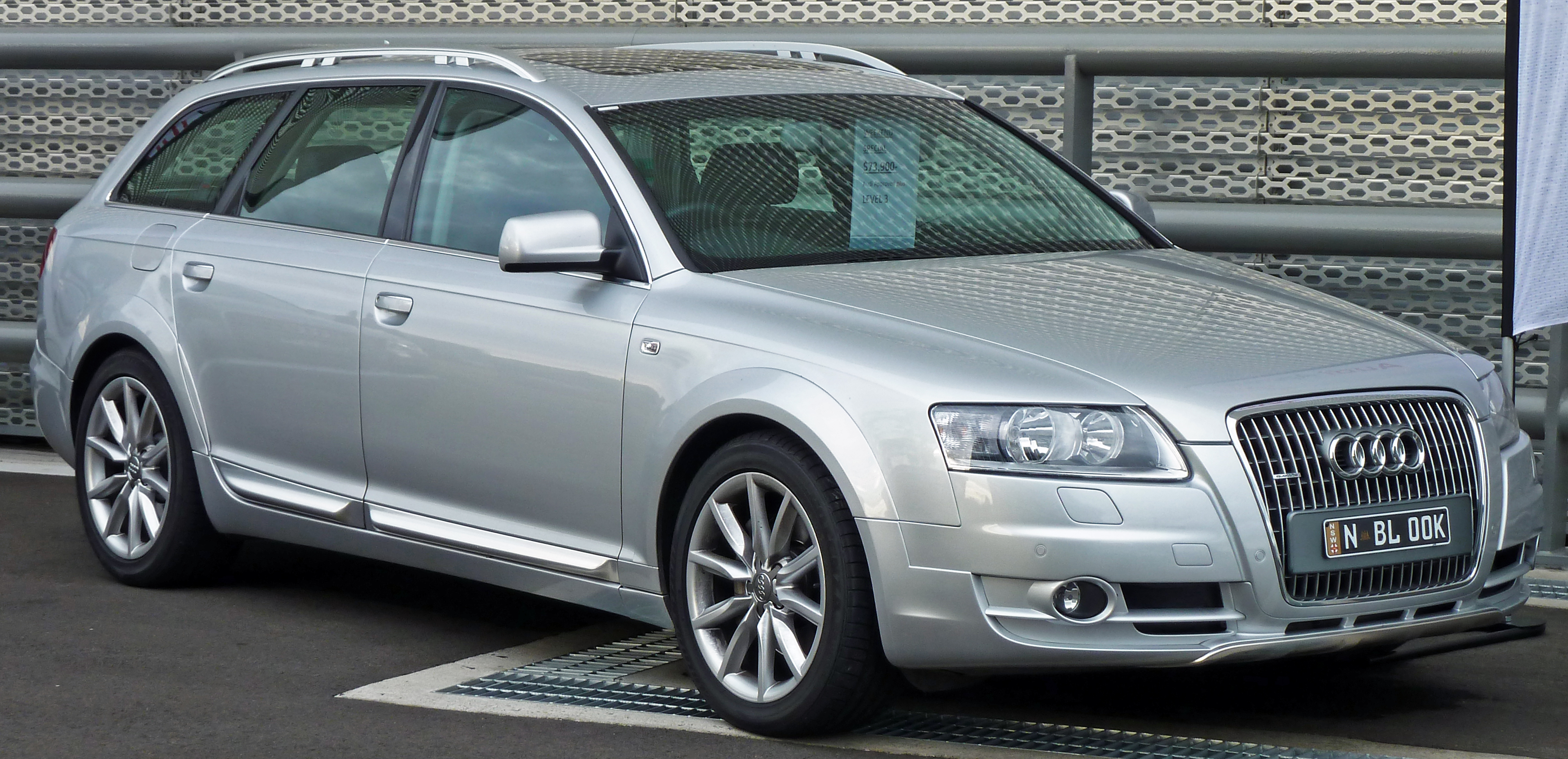 2007 Audi A6 (4F) allroad quattro 3.0 TDI station wagon. Photographed at the Audi Centre Sydney, Zetland, New South Wales, Australia.